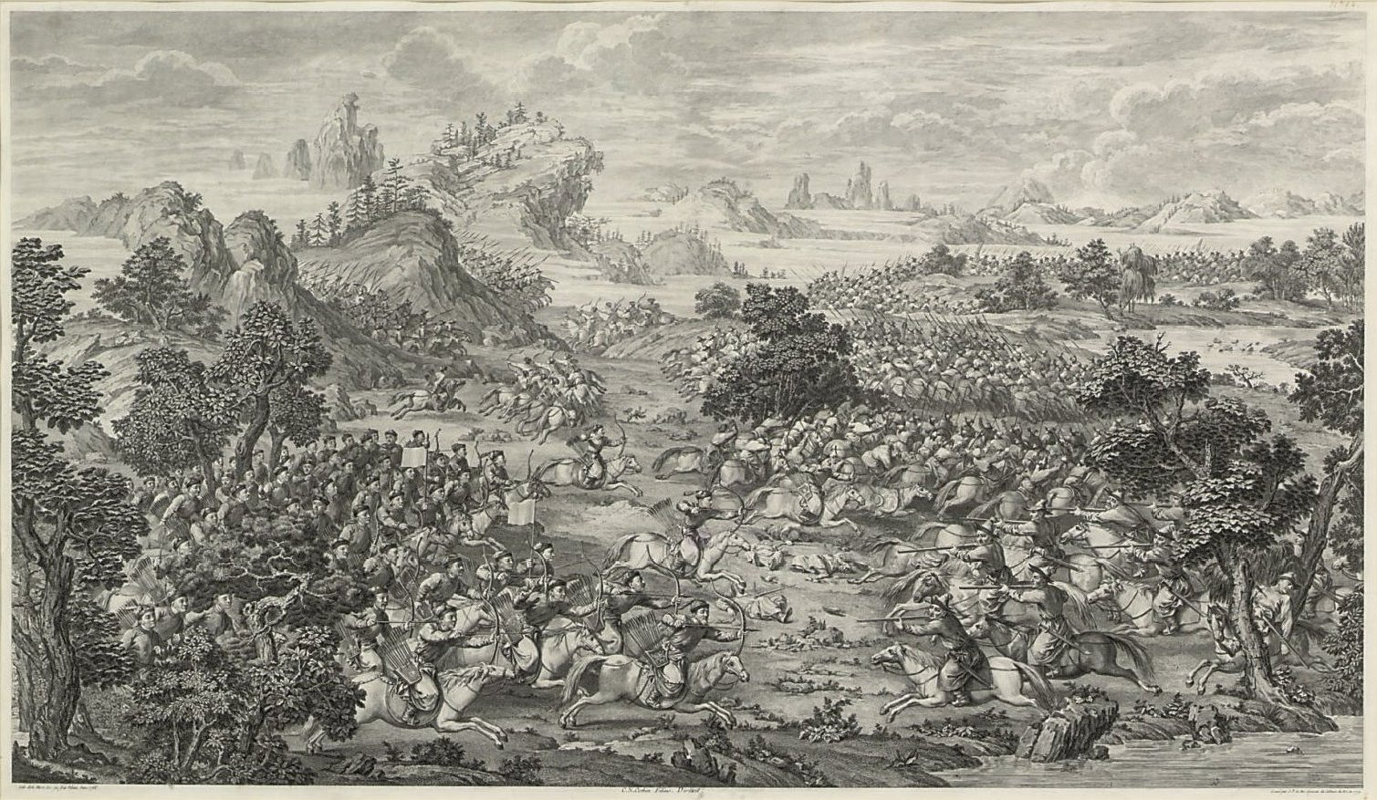 "The Victory of Khorgos" The partisans of Amursana were defeated in 1758 by Prince Cäbdan-jab. Drawn by Attiret, 1766; engraved by Le Bas, 1768 (4th on the 16 copperplates commissioned for Les Conquêtes de L'Empereur de la Chine)